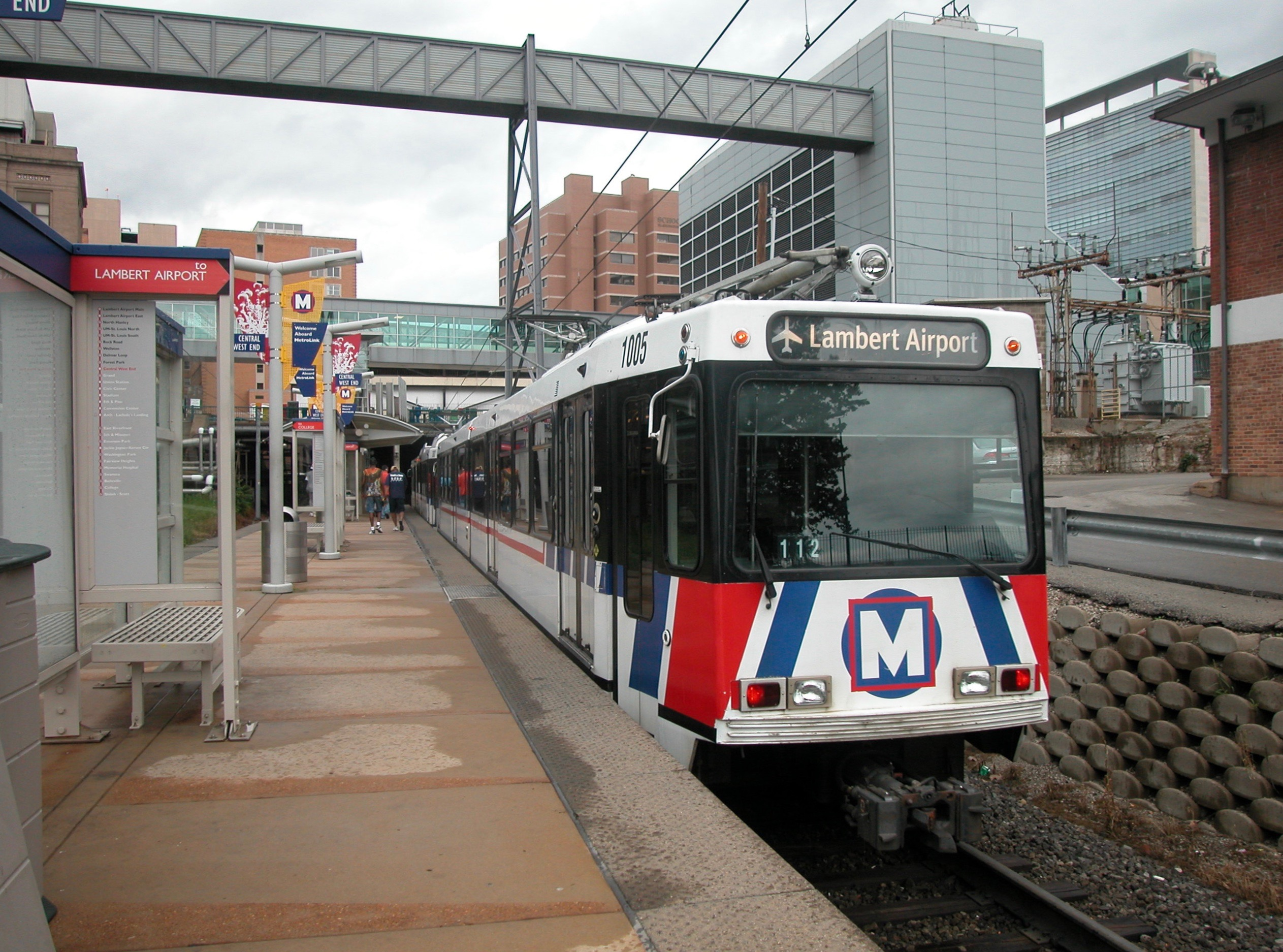 Metrolink light rail, Central West, St Louis, U.S